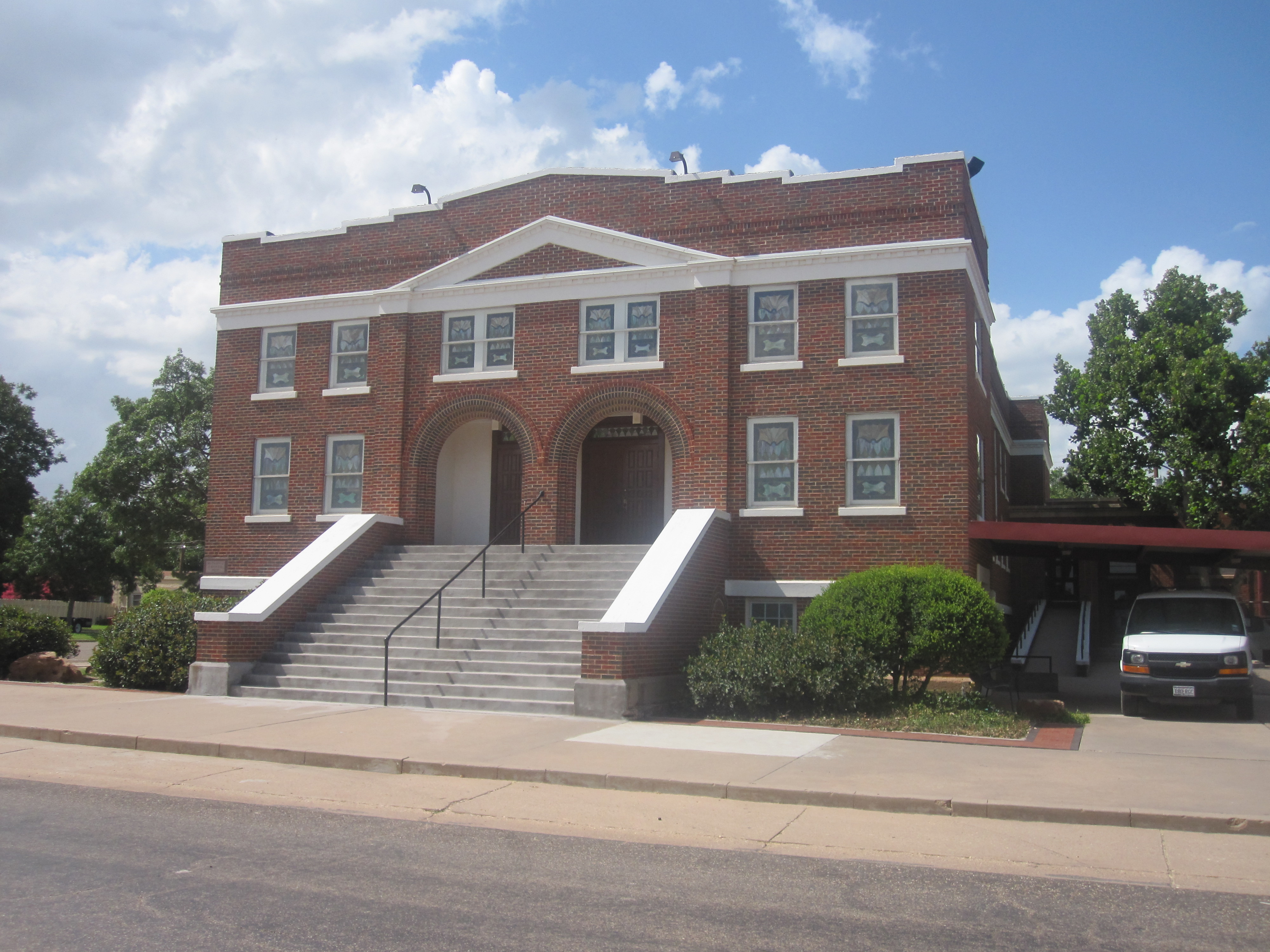 I took photo with Canon camera in Post, TX.